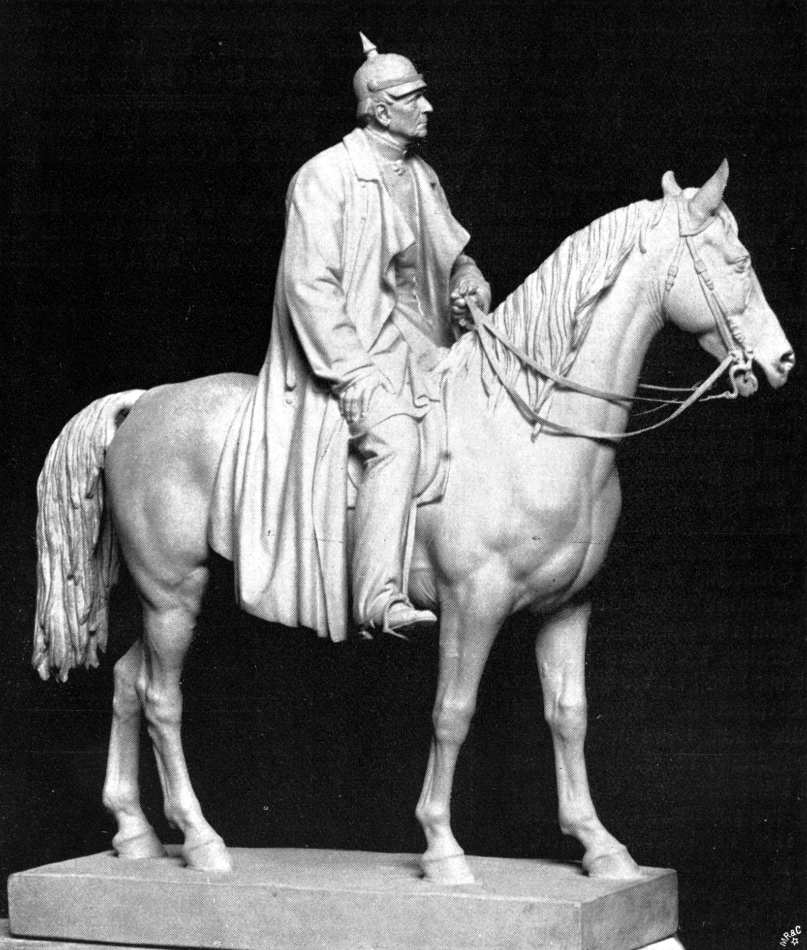 Helmuth von Moltke the Elder, Detail of the „Victoria-Monument“ in Leipzig by Rudolf Siemering, unveiled in 1888, destroyed c. 1946